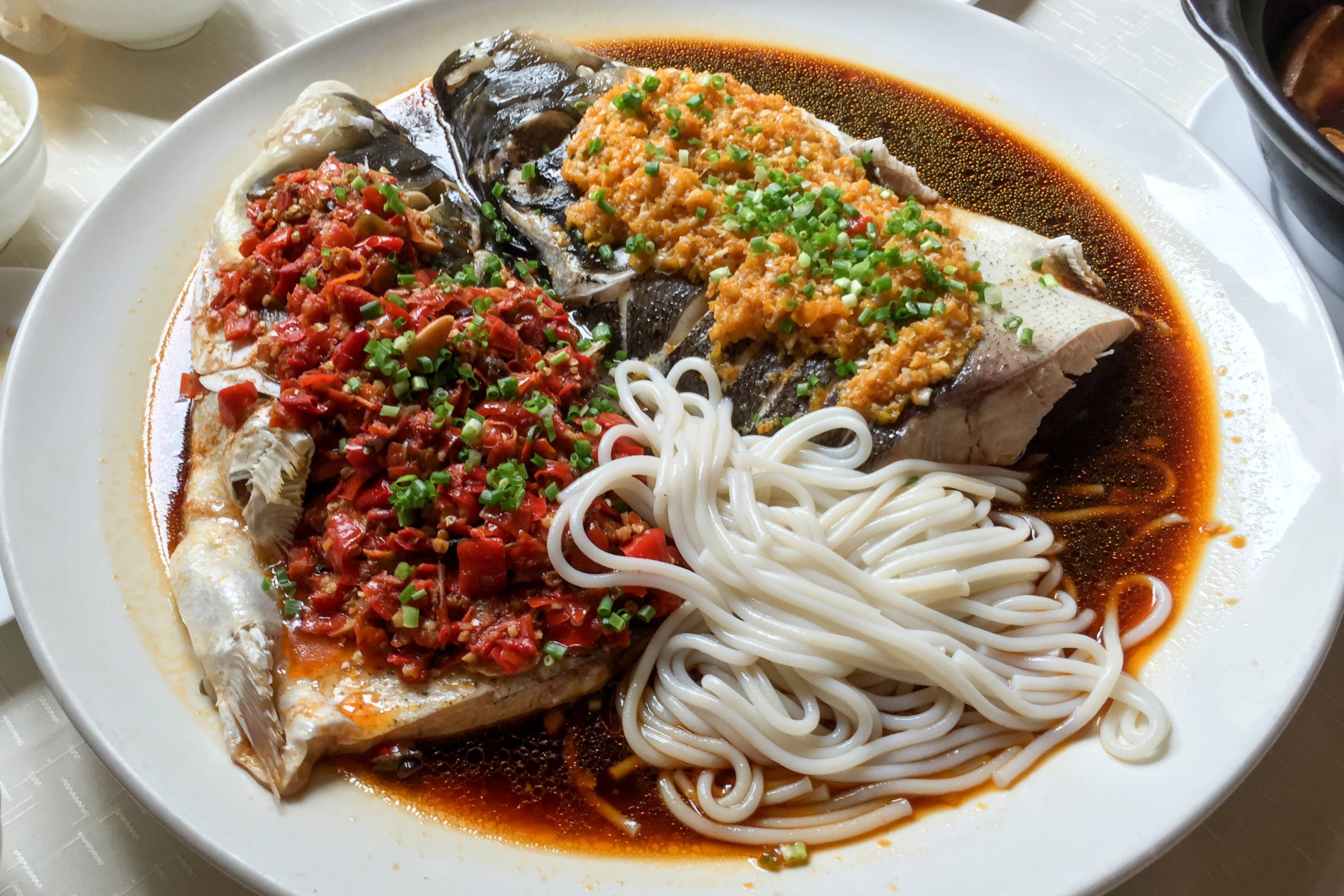 Made from bighead carp, a common fish species in Miyun.